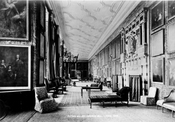 The long gallery at Hardwick Hall in the 19th century by George Washington Wilson (died 1893)